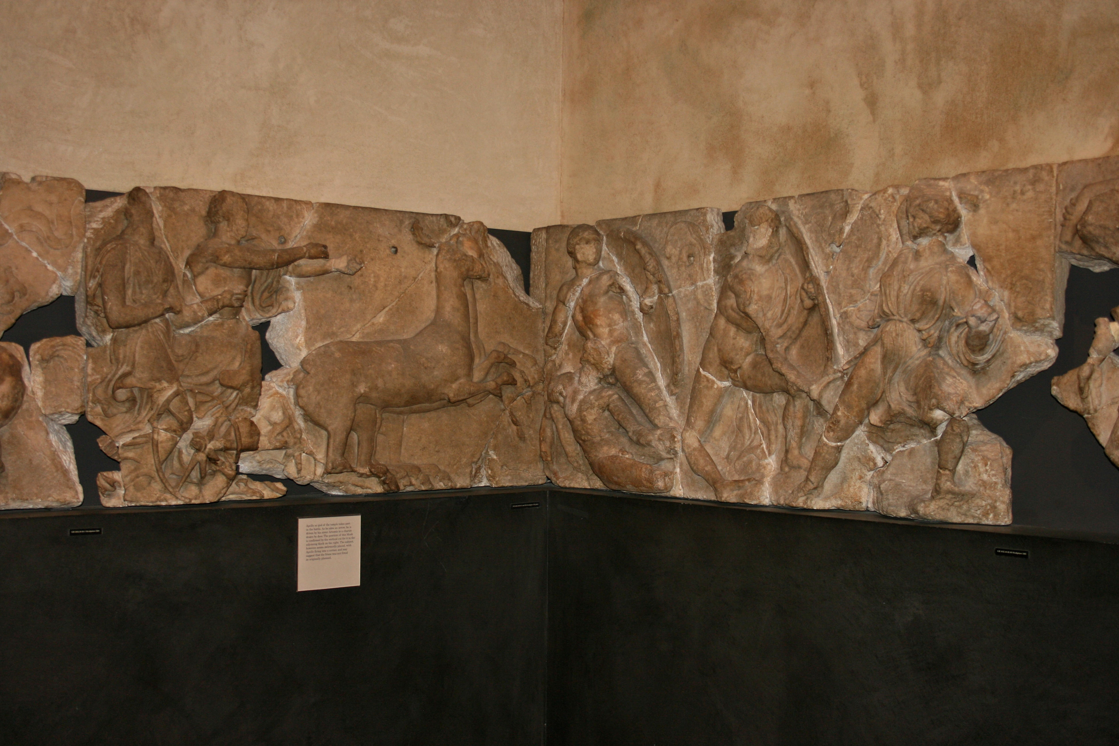 Part of the Bassae Frieze at the British Museum. Description is "Apollo as god of the temple takes part in the battle. As he aims an arrow, he is driven by his sister Artemis in a chariot drawn by deer. The position of this block is confirmed by the vertical cut for it in the adjoining block on the right. The subject, however, seems awkwardly placed, with Apollo firing into a corner, and may suggest that the frieze was not fitted as originally planned." Numbers from left-to-right: GR 1815.10-20.1 (Sculpture 528); GR 1815.10-20.11 and 283 (Sculpture 523 plus); GR 1815.10-20.16 (Sculpture 540).